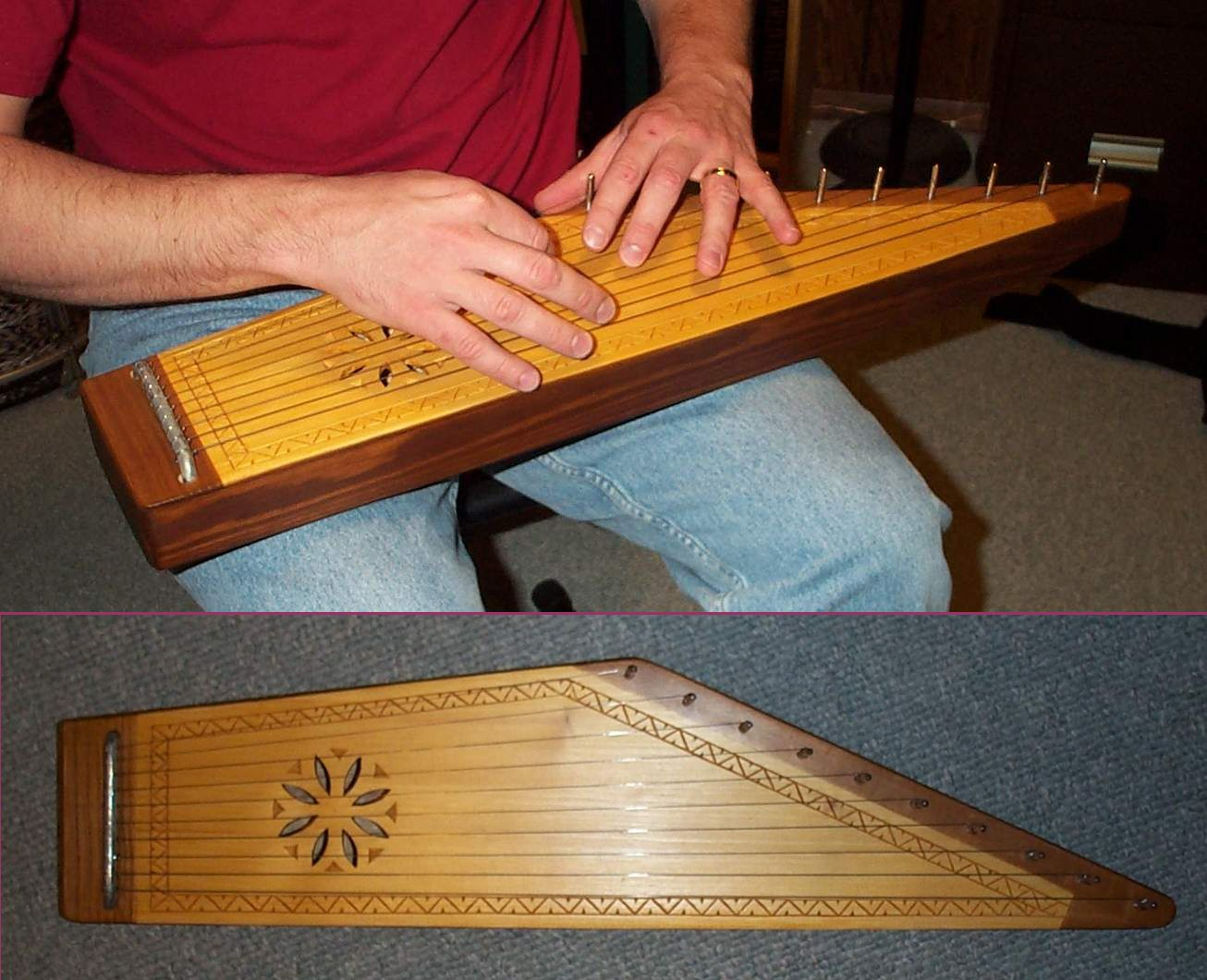 Kanklės, in the style of the Samogitia region. Made in 2002 by Egidijus Virbašius (b. 1960) of Vilnius, Lithuania. Photograph by Theodore Kloba.